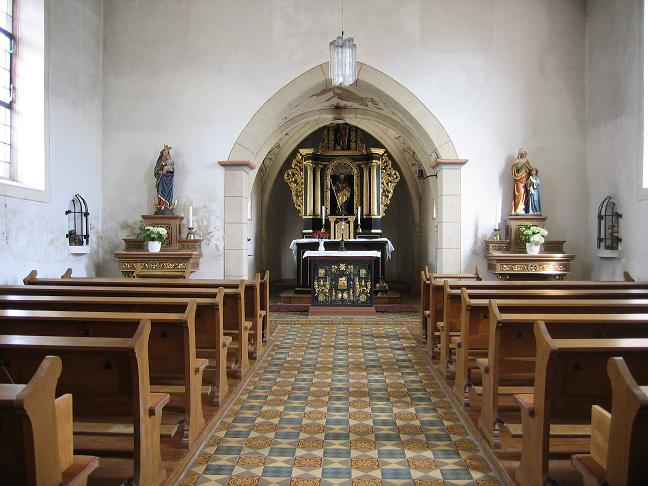 Keßlingen, Church, view of the interior